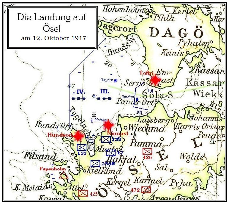 Dislocation of the German and Russian units on land and sea while landing on the island of Ösel on October 12, 1917.